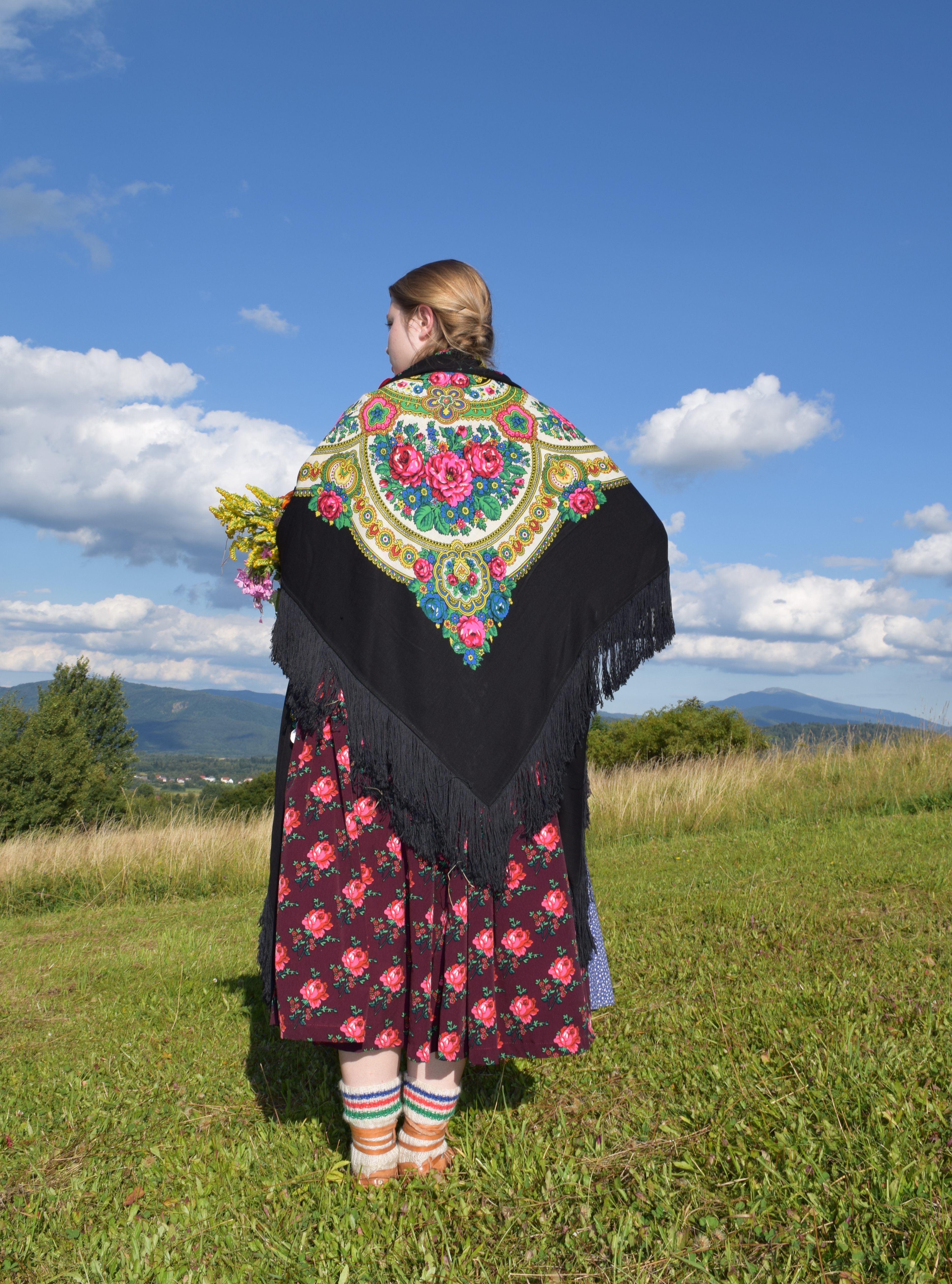 A member of the "Grojcowianie" folklore music group in traditional Polish costume of the Żywiec Beskids. Juszczyna, 2016